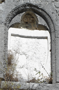 Cantelmo COA in Alvito Castle's stone